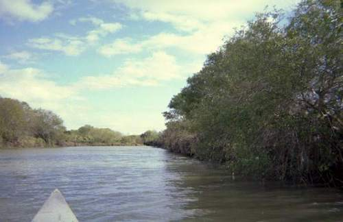 Kayaking On Oso Creek